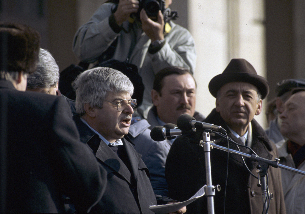 “Moscow Mayor Gavriil Popov speaking at a rally”. Moscow Mayor Gavriil Popov speaking at a rally of Muscovites in support of Boris Yeltsin's policy and Russia's referendum.